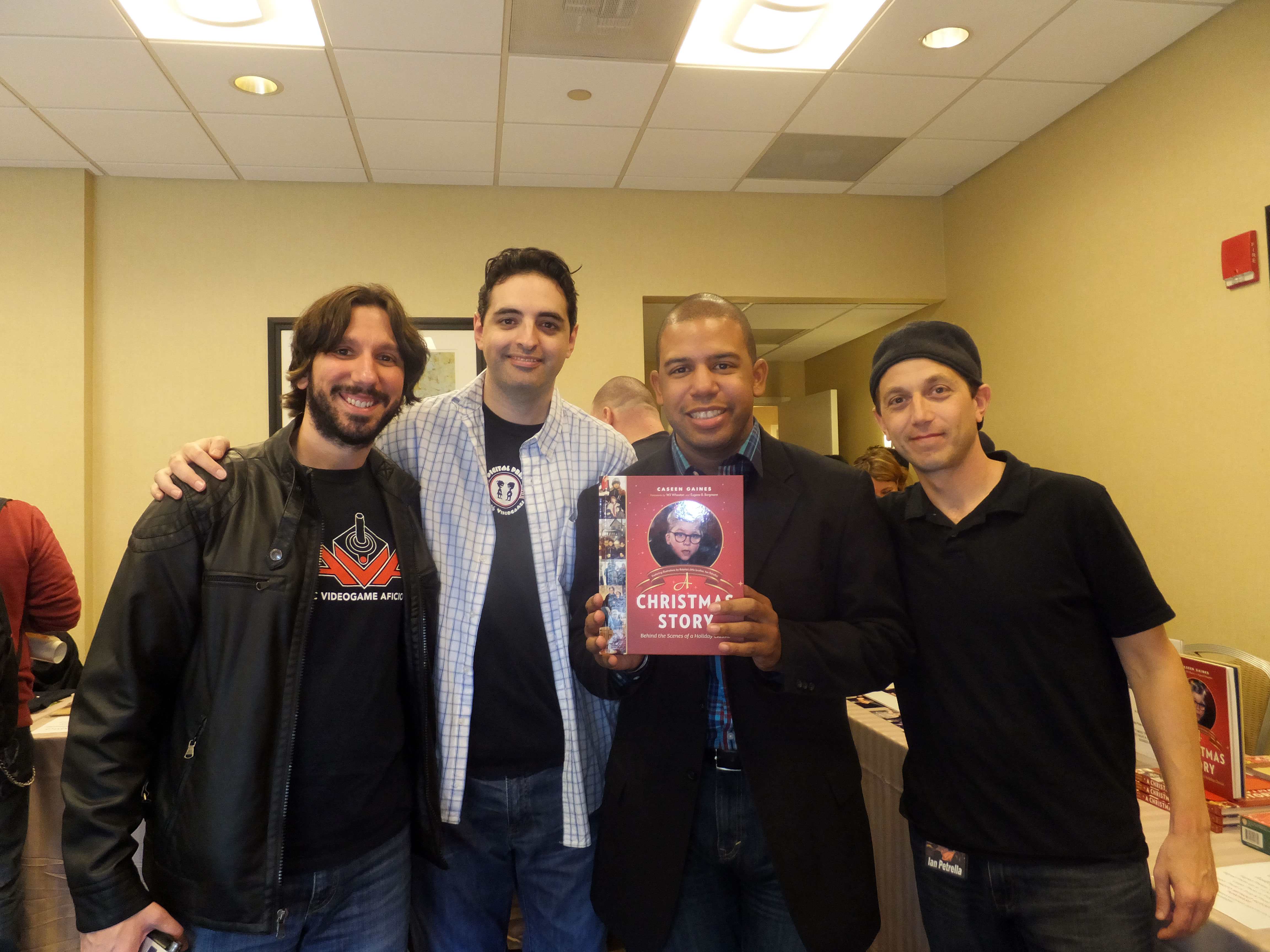 With Greg at the Chiller Theatre Expo at the Sheraton Parsippany Hotel in Parsippany, NJ, October 26, 2013. pictured (left to right): Rob DiCaterino, Greg, Caseen Gaines, and Ian Petrella